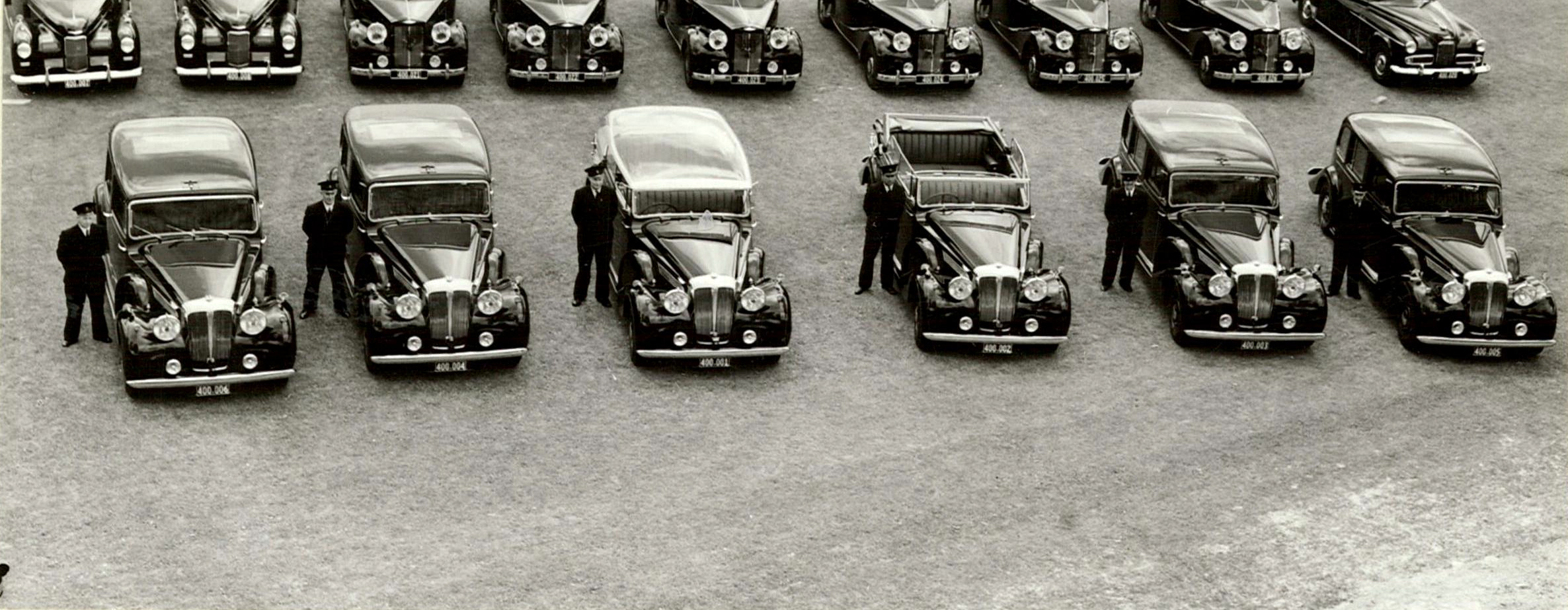 A fleet of cars was purchased for the planned visit of King George VI and Queen Elizabeth to New Zealand in 1952 This photograph shows (L to R) Daimler: limousine, landaulette and all-weather cars and, in reverse order, their identical back-up cars